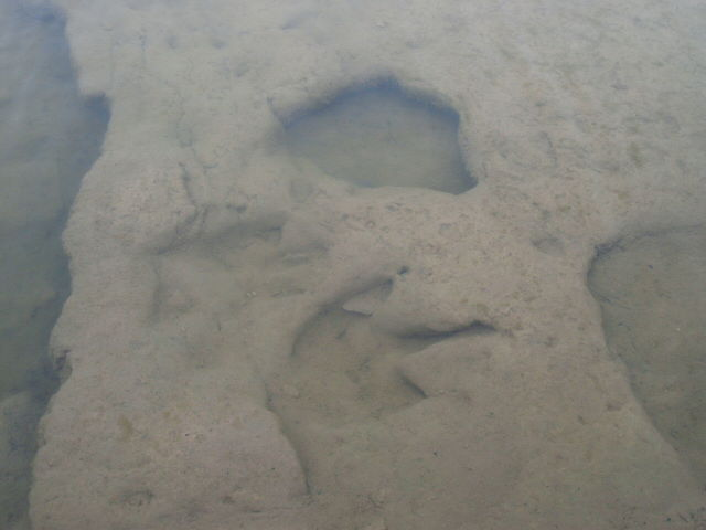 Dinosaur Valley State Park, near Glen Rose Texas, ninety minutes' drive southwest of Dallas. The many prints in the shallow river include both carnivorous dinosaurs and plant-eating dinosaurs.